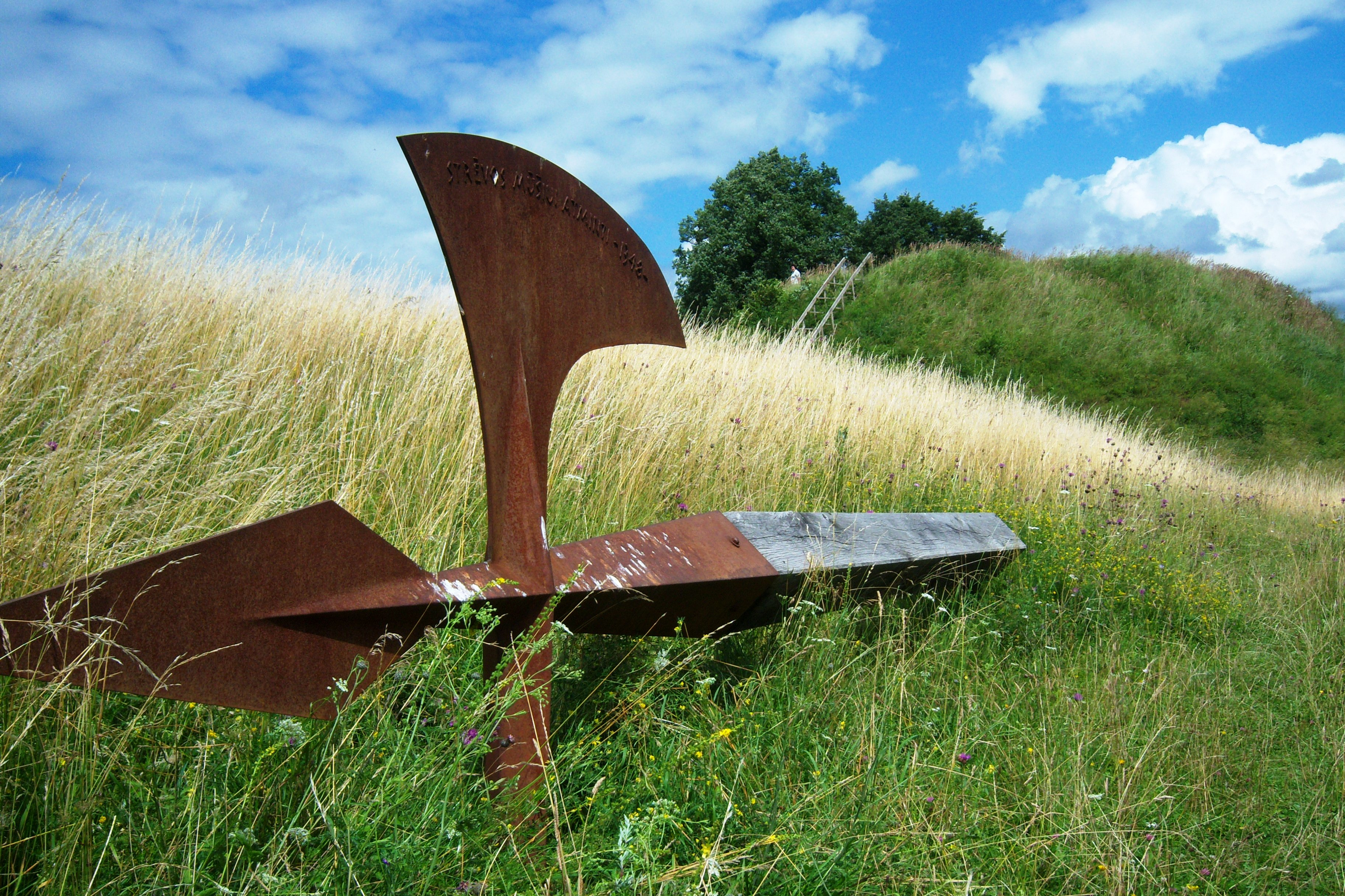 Maisiejūnų hillfort I, battle of Strėva commemoration site, Kaišiadorys district, Lithuania